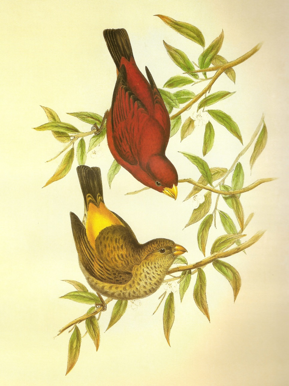 Scarlet Finch Haematospiza sipahi (Hodgson)